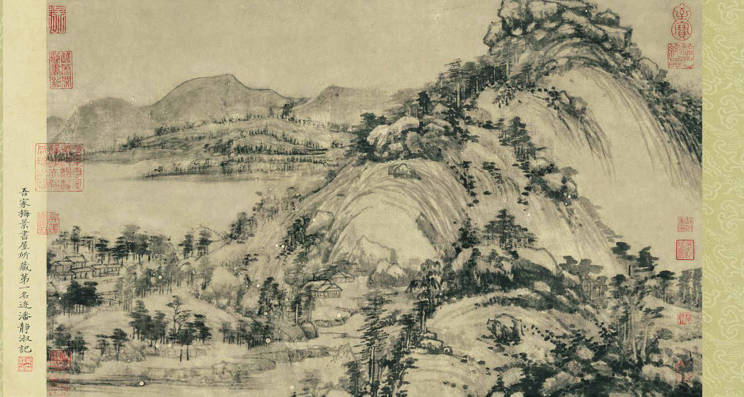 portion of Dwelling in the Fuchun Mountains, by the Yuan Dynasty painter Huang Guangwang (1269 - 1354)., Yuan dynasty (1279-1368), ink on paper hand scroll, The work is currently kept in the Zhejiang Provincial Museum in Hangzhou.